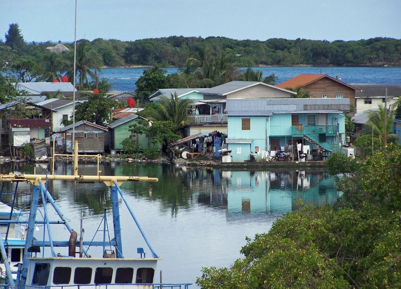 French Harbor. French Harbor, Honduras, Roatan.